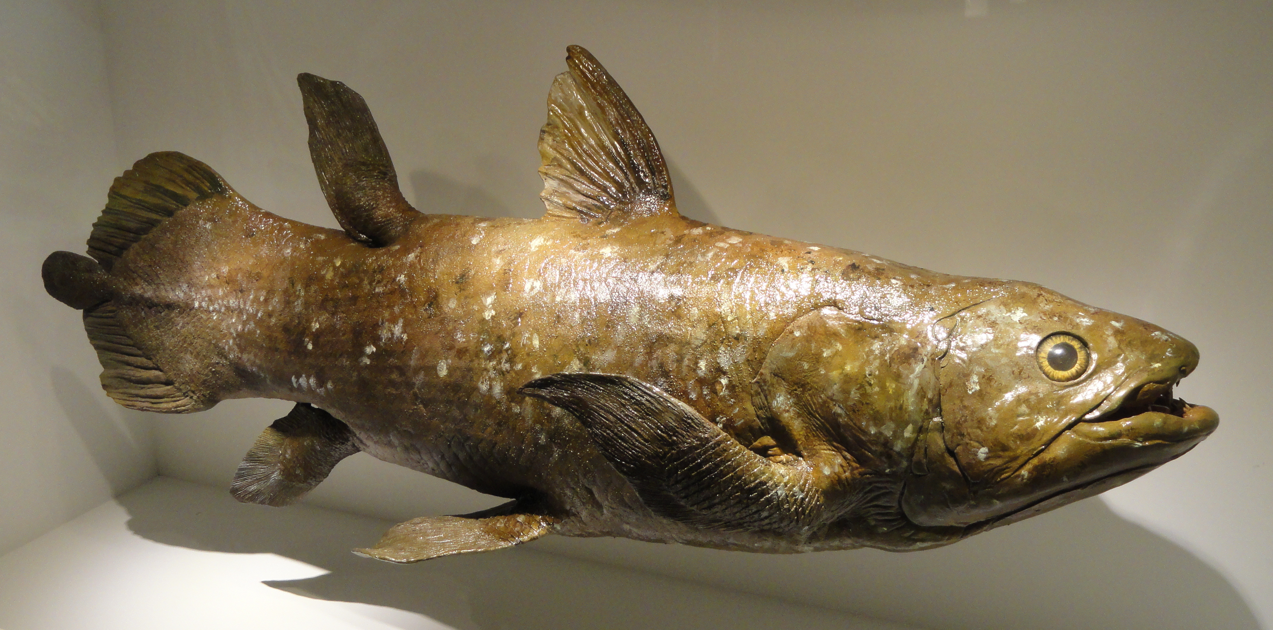 Exhibit in the Houston Museum of Natural Science, Houston, Texas, USA.